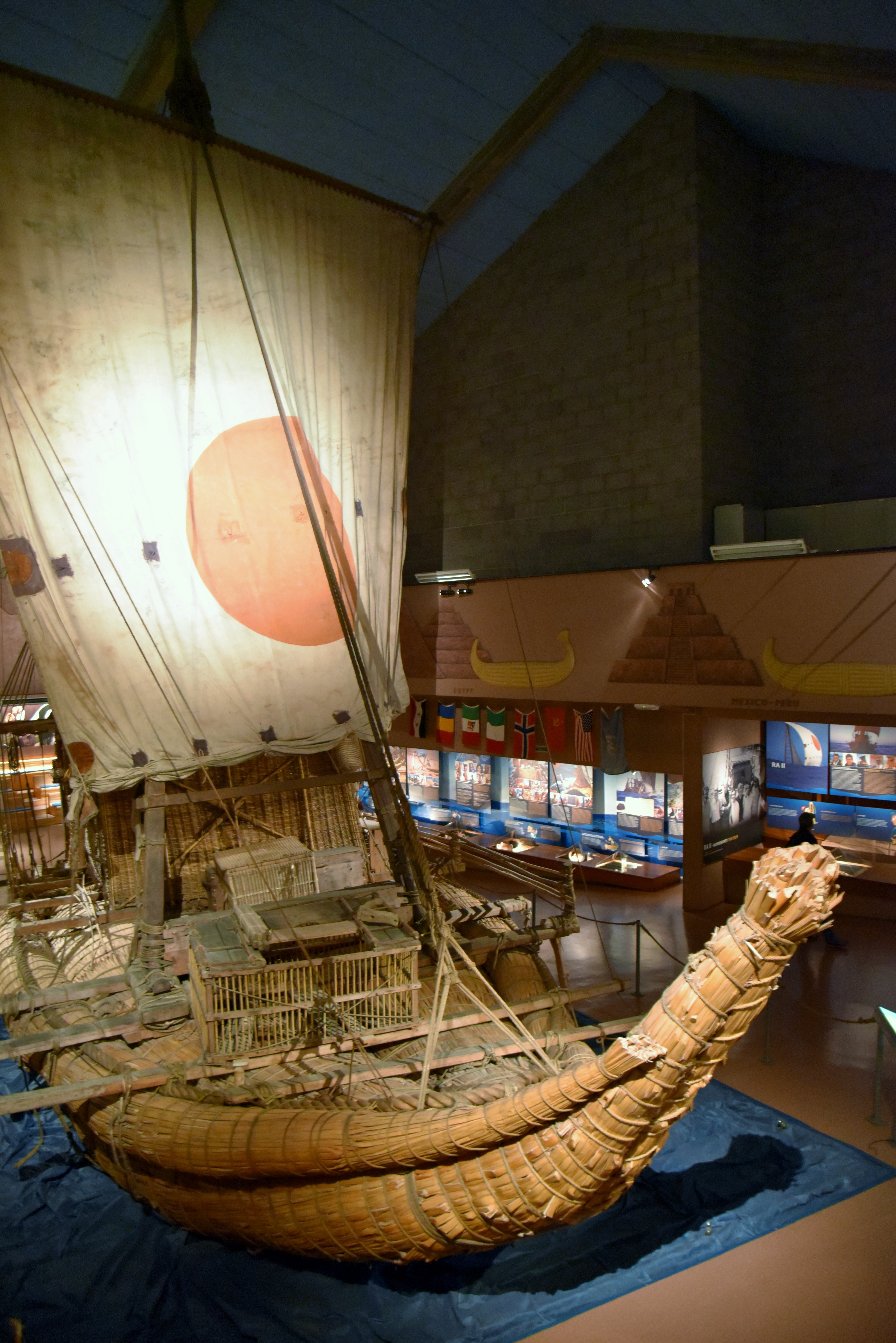 Ra II, on display inside the Kon-Tiki Museum, Oslo